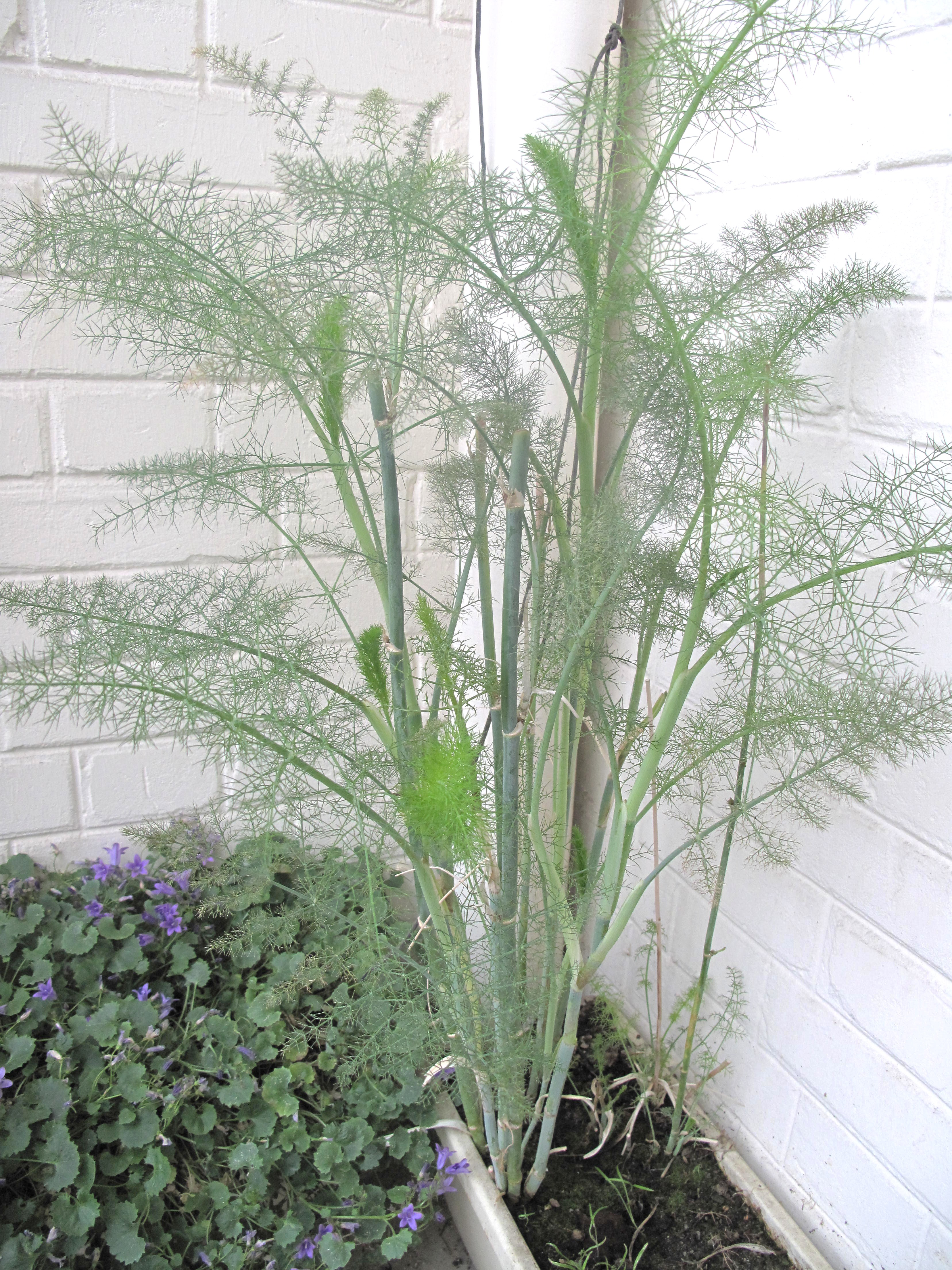 Fennel in a garden box.